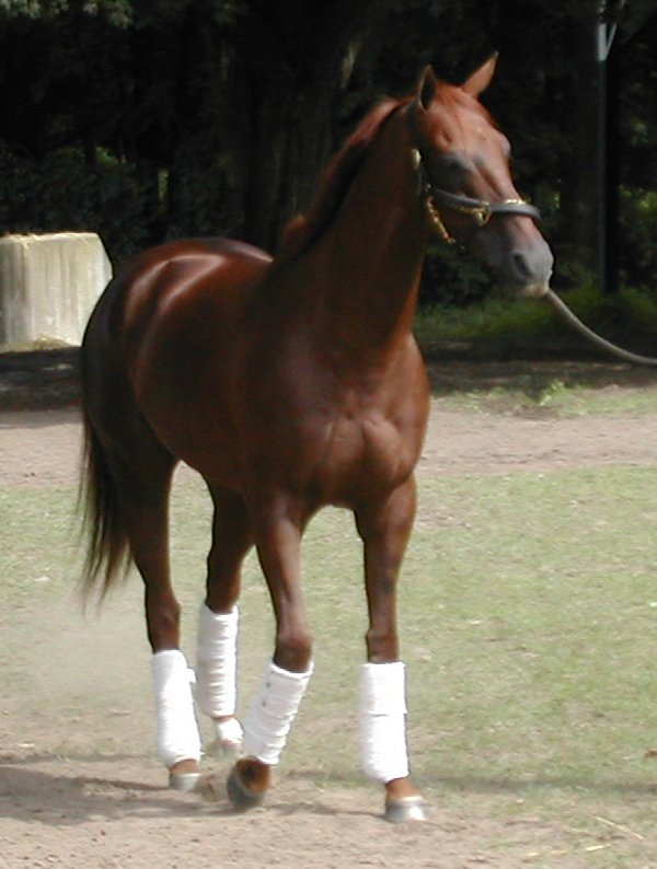 Photo taken by Ki Longfellow, contributor to Funny Cide article